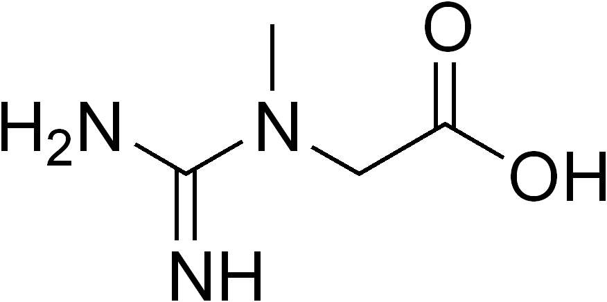 chemical structure of creatine